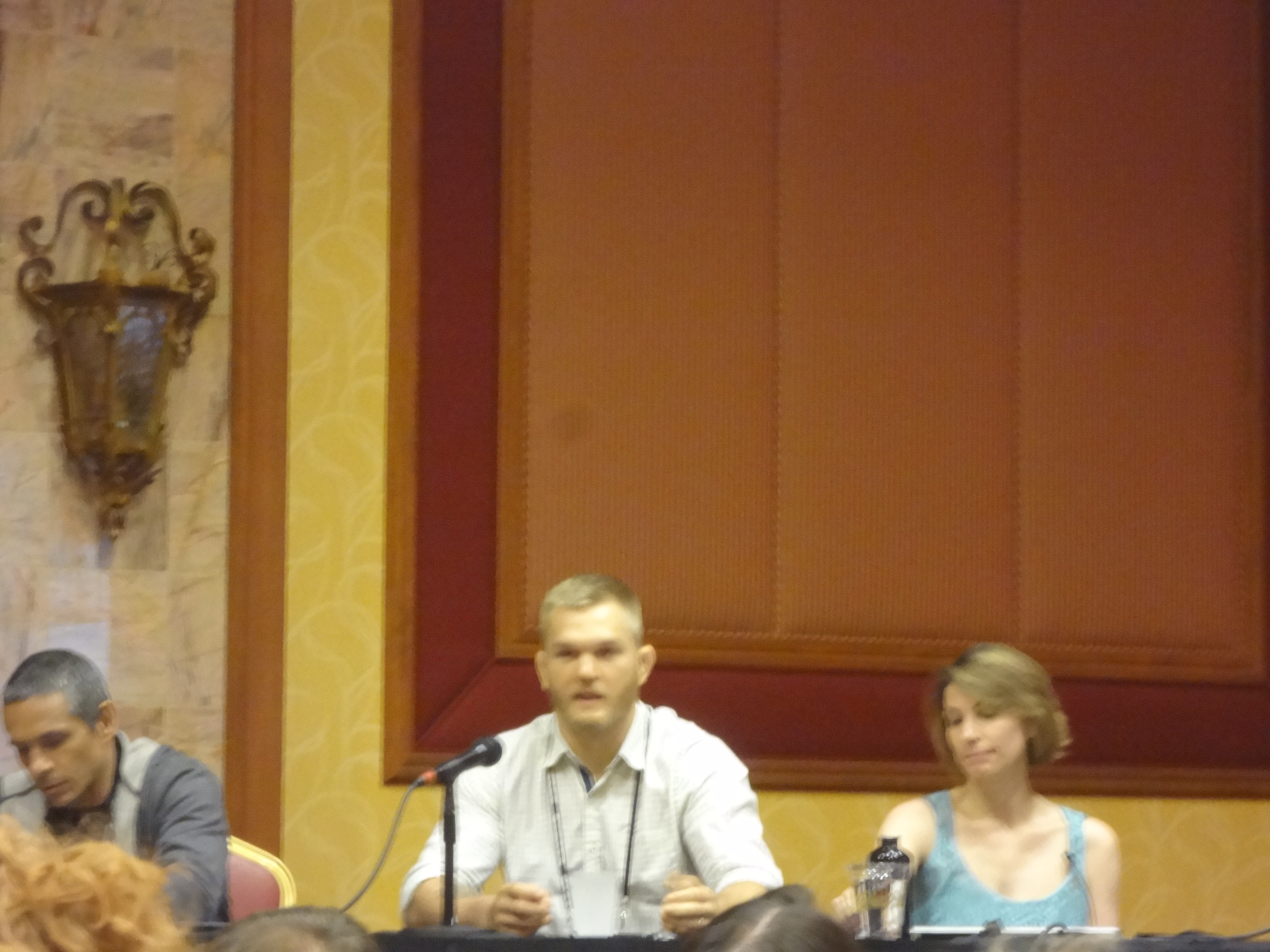 BRENT WEEDMAN, JENNIFER OUELLETTE, AND SIFU S.F. ZEIGLER present at The Amazing Meeting 2013